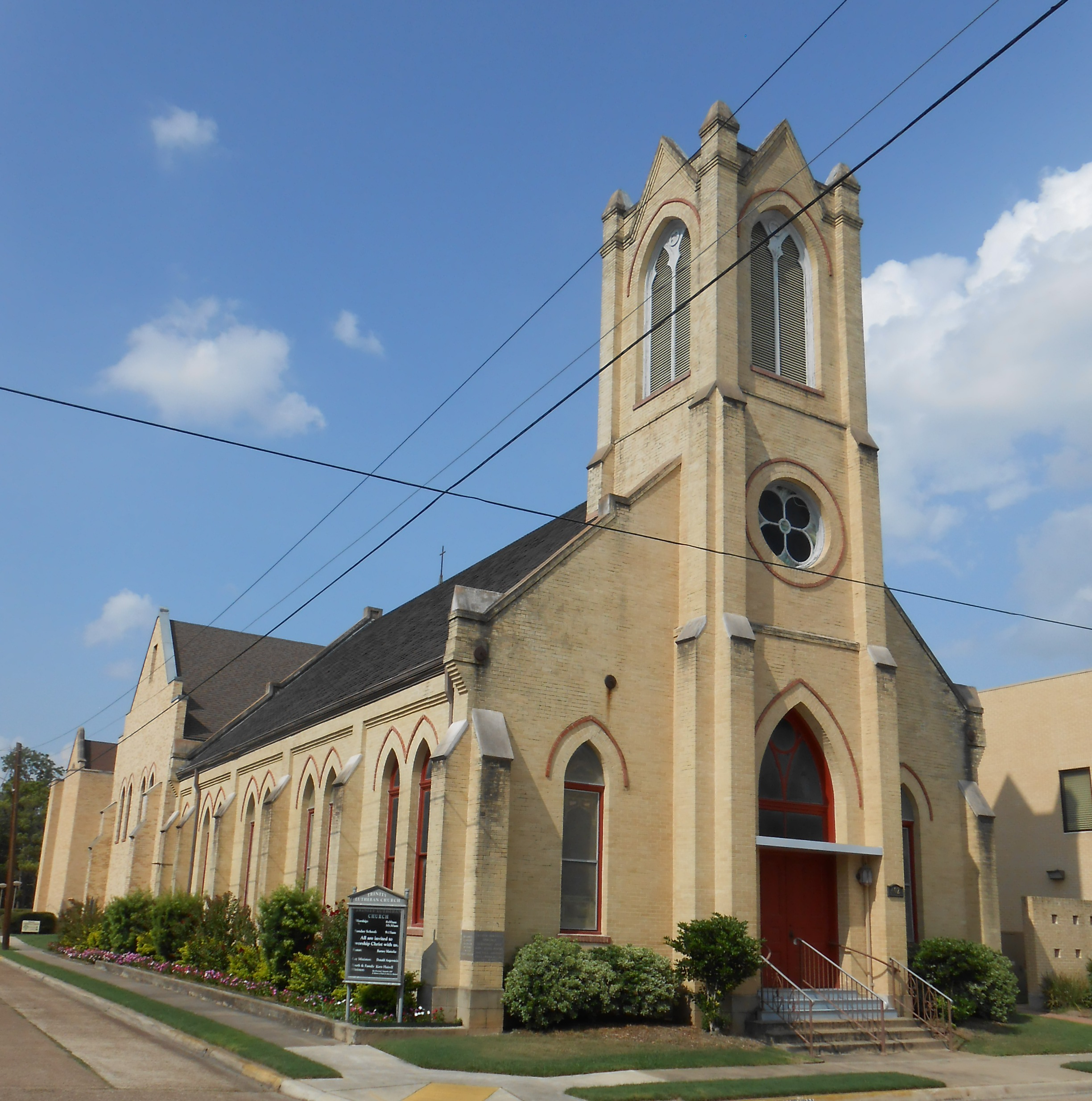 Trinity Lutheran Church, 402 E. Constitution Street, Victoria, Texas